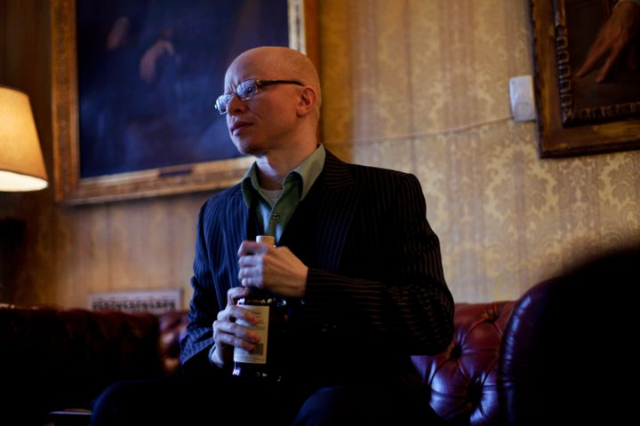 set photo